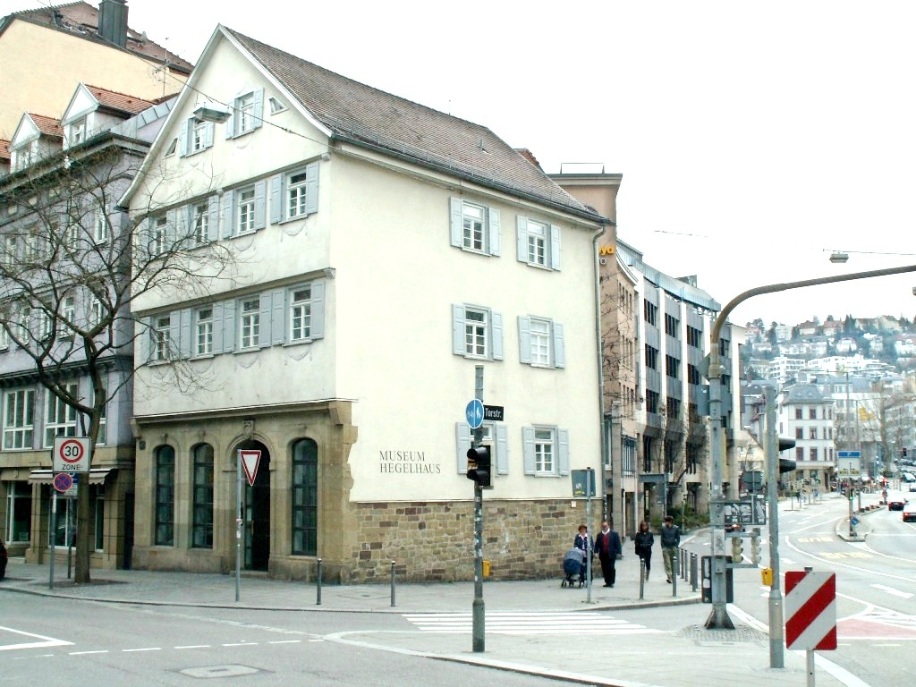 This picture shows the birthplace of Georg Wilhelm Friedrich Hegel in Stuttgart, Germany